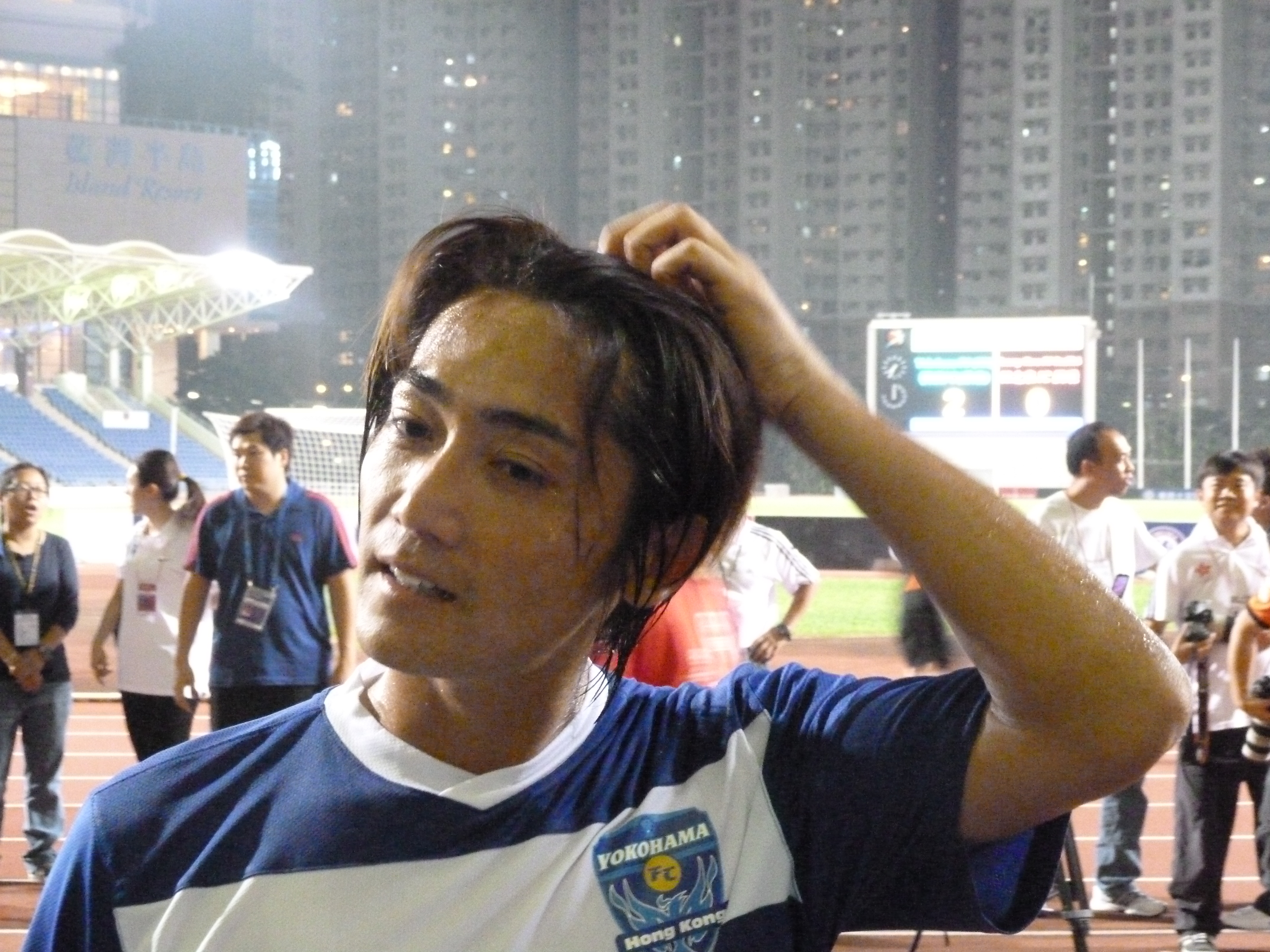 Tsuyoshi Yoshitake (16 Sept 2012 Hong Kong First Division League, Yokohama FC Hong Kong vs Sun Hei, Siu Sai Wan Sports Ground) 中文（香港）: 吉武剛 (16 Sept 2012 香港甲組足球聯賽, 橫濱FC(香港) vs 晨曦, 小西灣運動場)